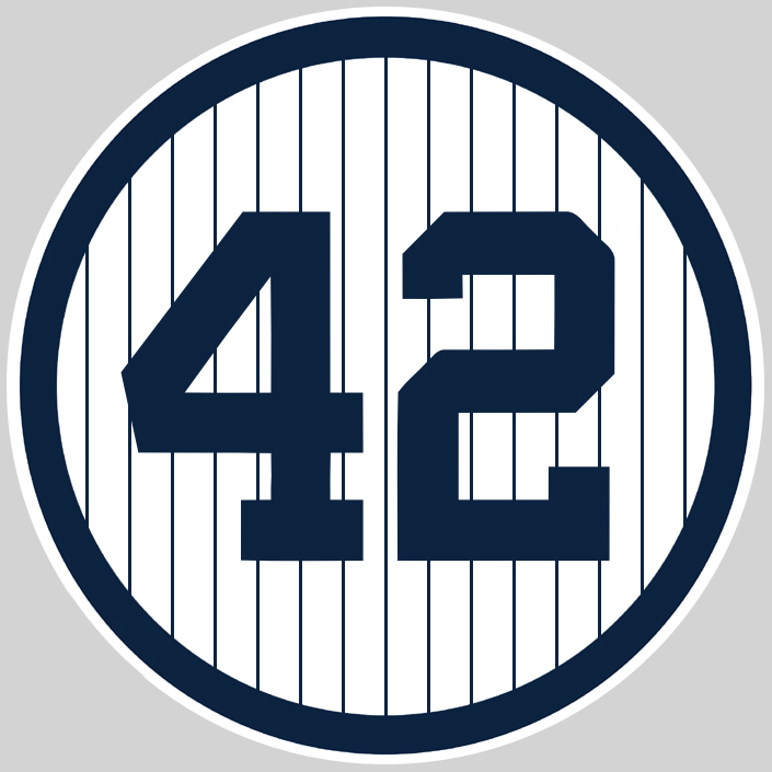 Image represents the current version of Mariano Rivera's No. 42 seen in Monument Park in Yankee Stadium